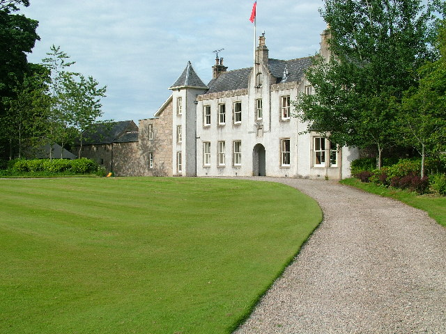 Pitmedden House. A National Trust property